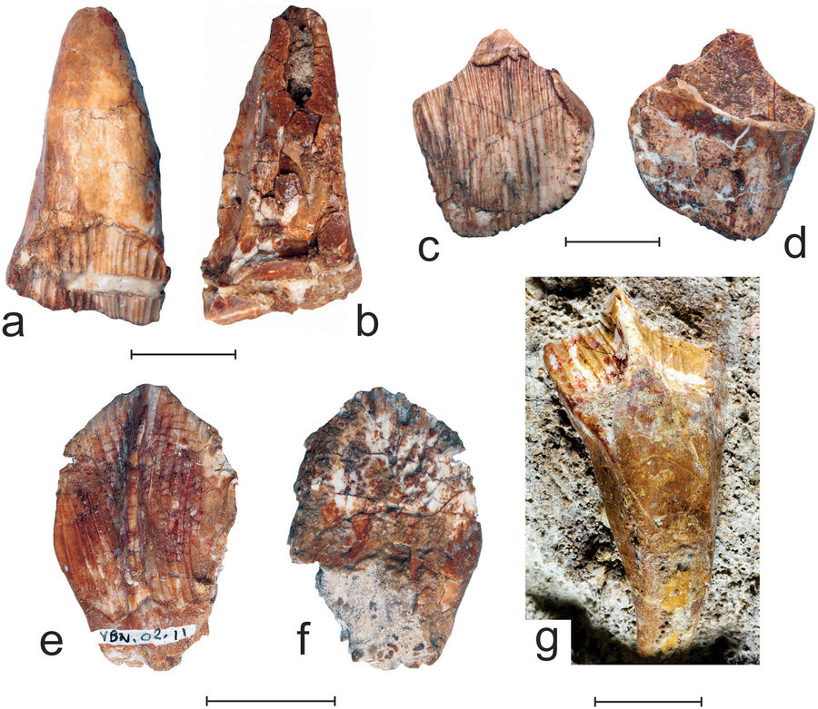 Figure 3 Isolated teeth of Matheronodon provincialis gen. et sp. nov. Left maxillary tooth (MMS/VBN- 09–149a) in labial (a) and lingual (b) views. Right maxillary crown (MMS/VBN-12-22) in labial (c) and lingual (d) views? Right dentary tooth (MMS/VBN-02-11) in lingual (e) and labial (f) views? Left dentary tooth (MMS/VBN-12-A002) in lingual view (g). Scale bars = 2 cm.